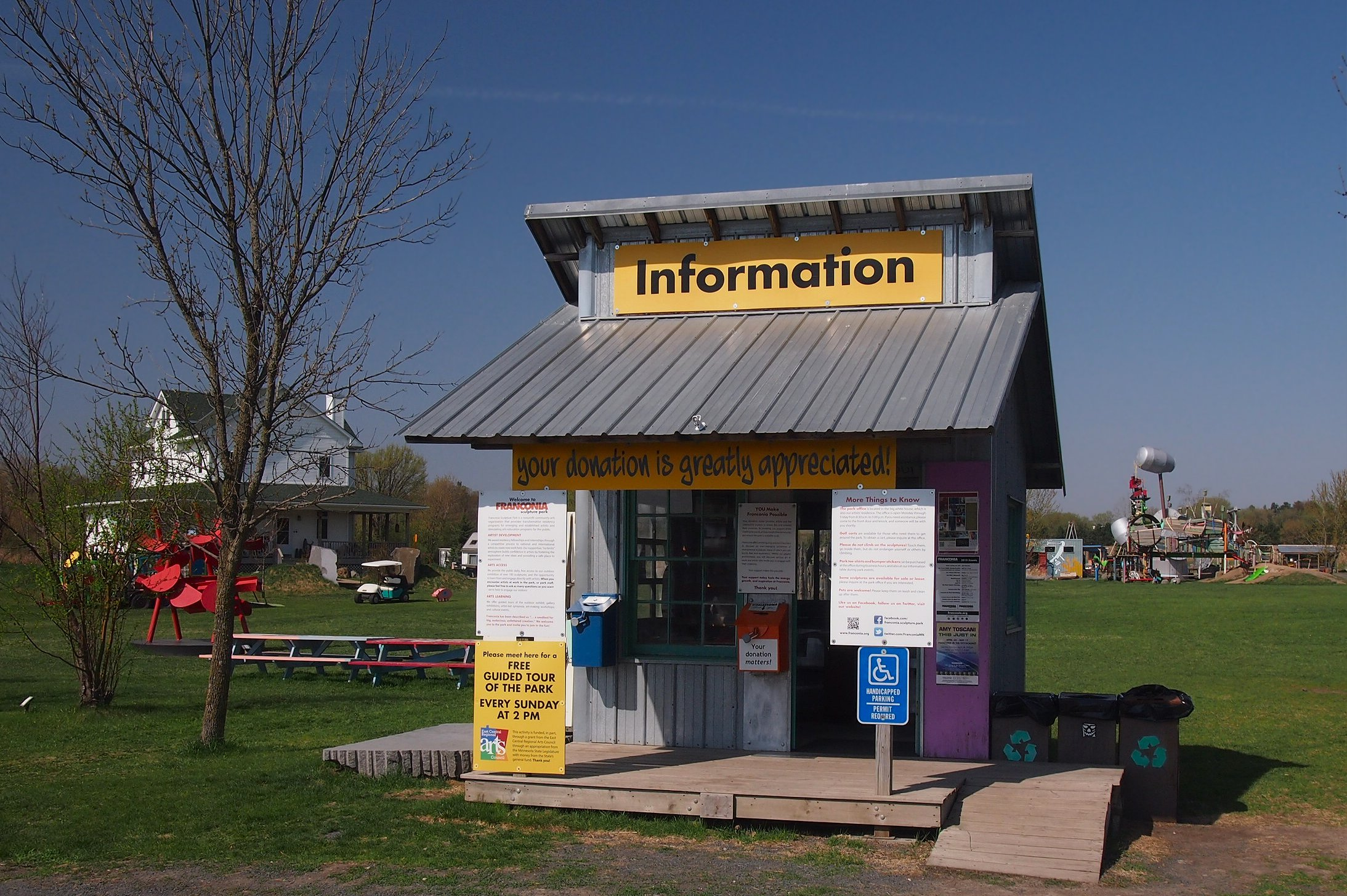 Information booth at the entrance to Franconia Sculpture Park, 29836 St. Croix Trail, Franconia, Minnesota, USA. Viewed from the east-northeast.